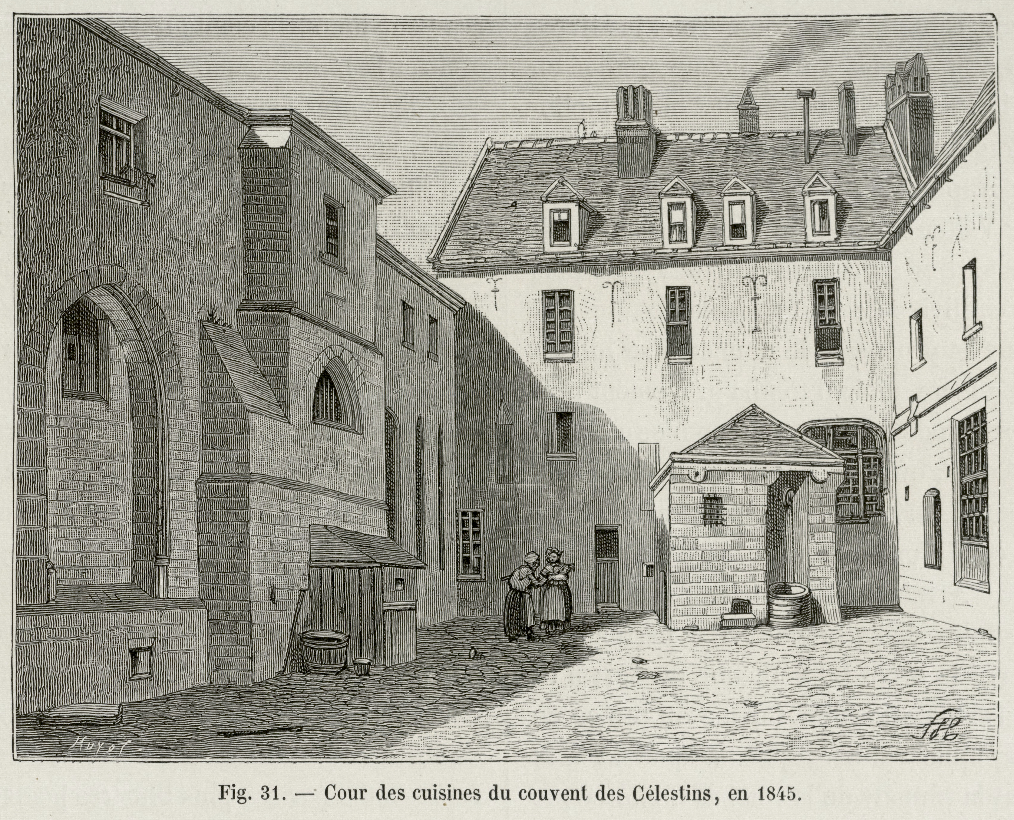 The Célestins Convent dates from the Middle Ages and was located in the Arsenal neighborhood of Paris. It underwent various architectural transformations throughout the centuries and was eventually demolished in the second half of the 19th century.